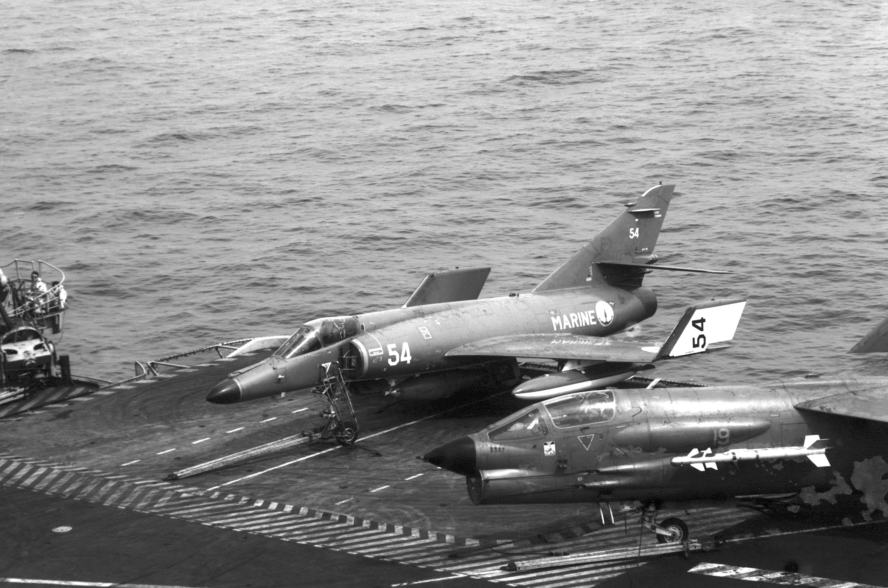 A French Dassault Super Étendard and a F-8E(FN) Crusader aircraft parked on the flight deck of the French aircraft carrier Clemenceau (R 98) on 7 November 1988.